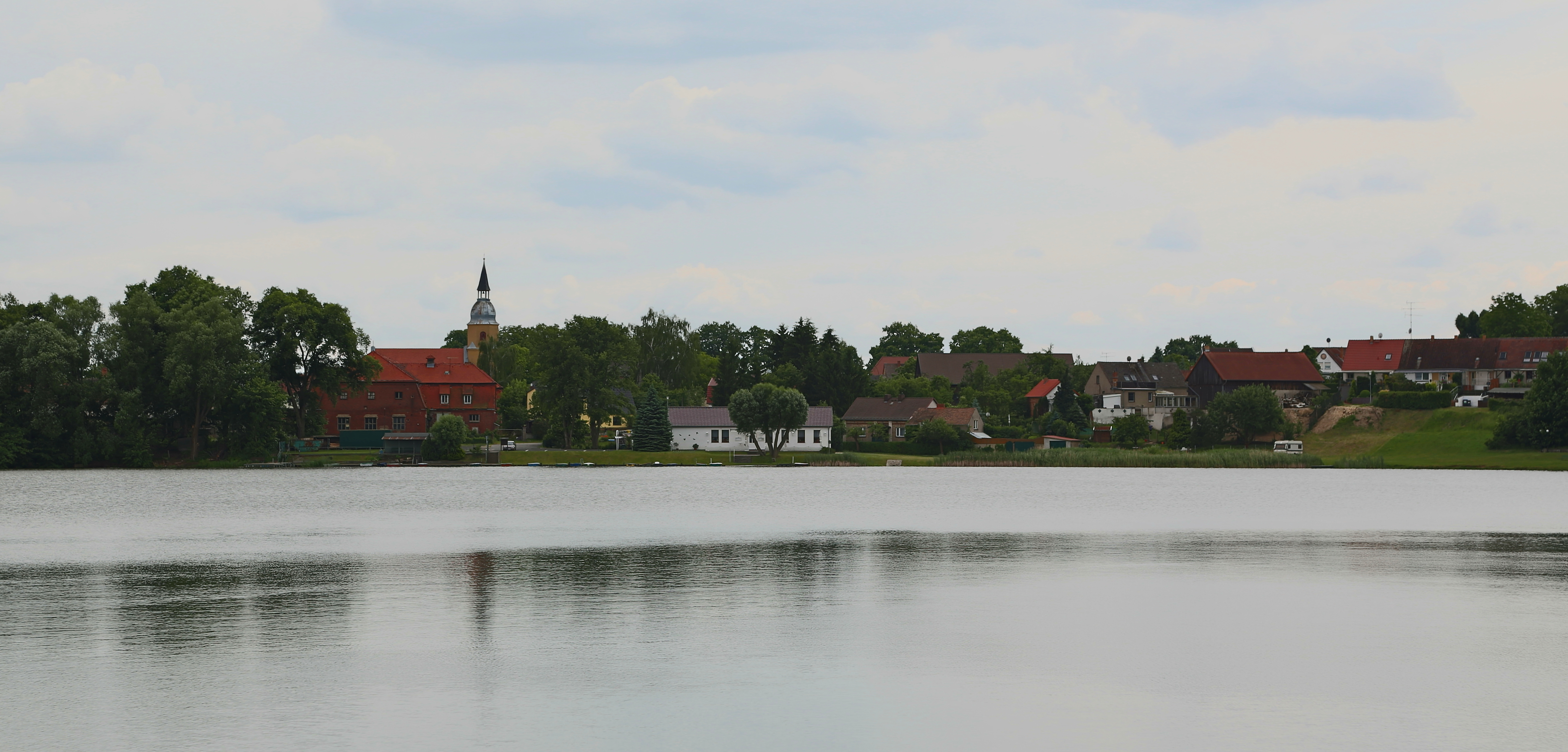 Blick über den Groß Leuthener See auf Groß Leuthen, Ortsteil der Gemeinde Märkische Heide, Landkreis Dahme-Spreewald, Brandenburg, Deutschland.